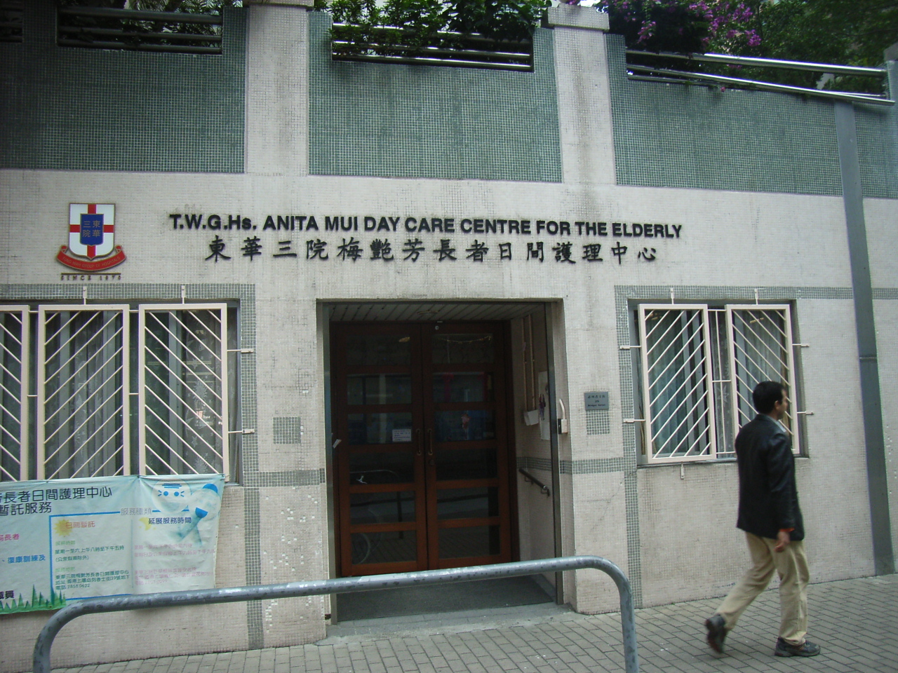 Bridge Street, Sheung Wan, Hong Kong (Photographer & author: User:BITBITSW).